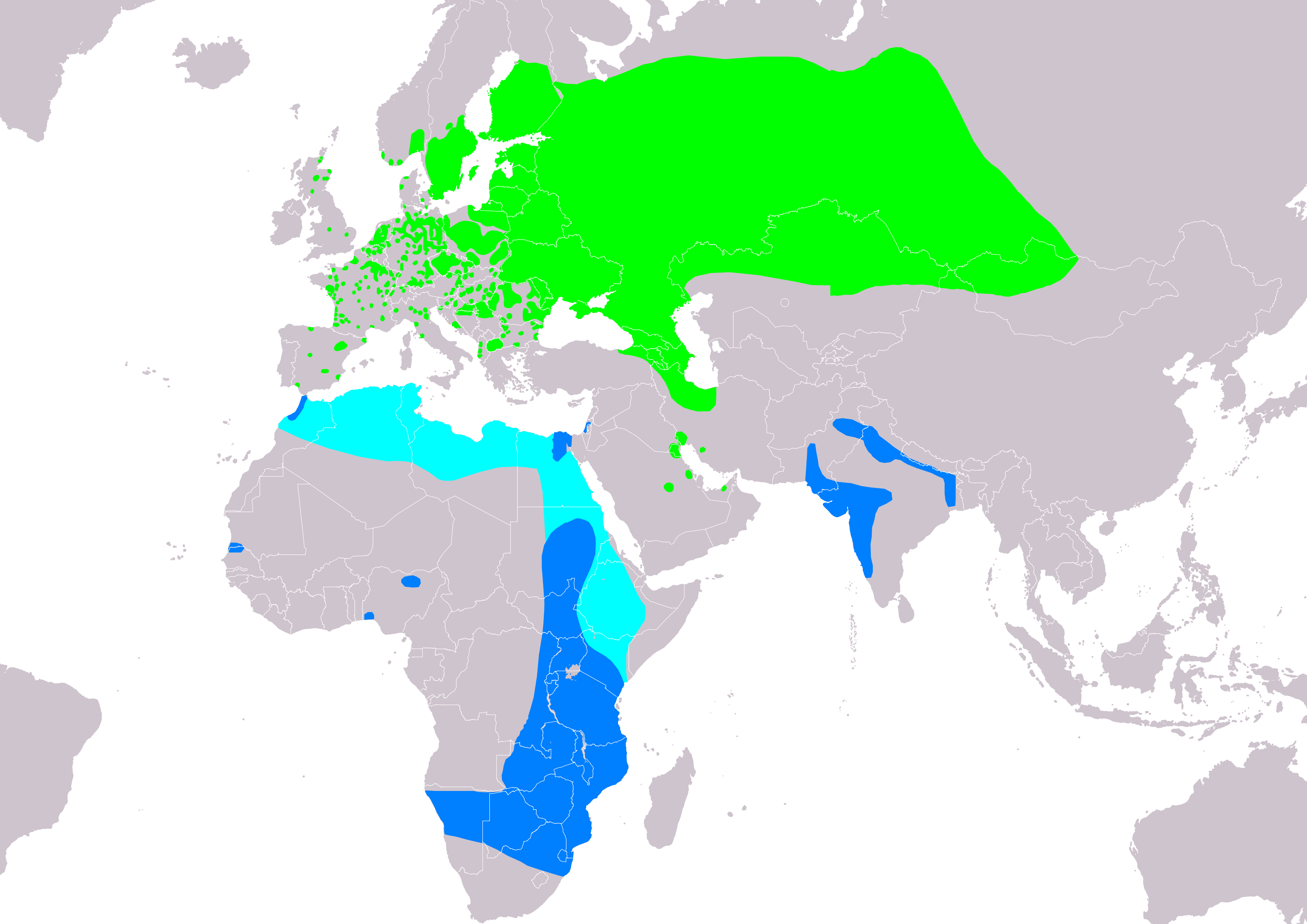 Distribution map of spotted crake (Porzana porzana) according to IUCN version 2019.1: ; key: Legend: Extant, breeding (#00FF00), Extant, passage (#00FFFF), Extant, non-breeding (#007FFF)